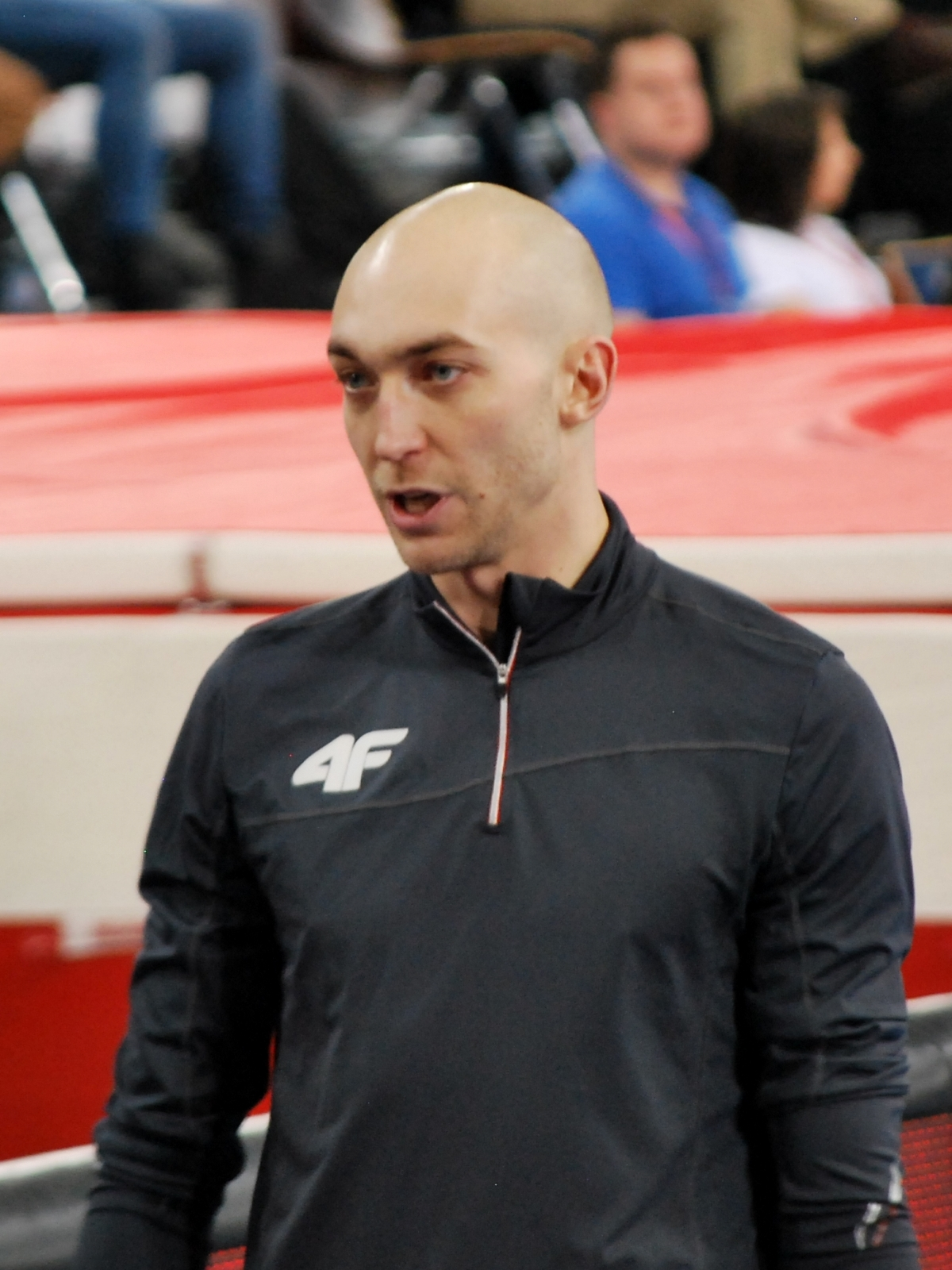 Sylwester Bednarek, high jumper from Poland, Pedro's Cup Łódź 2016